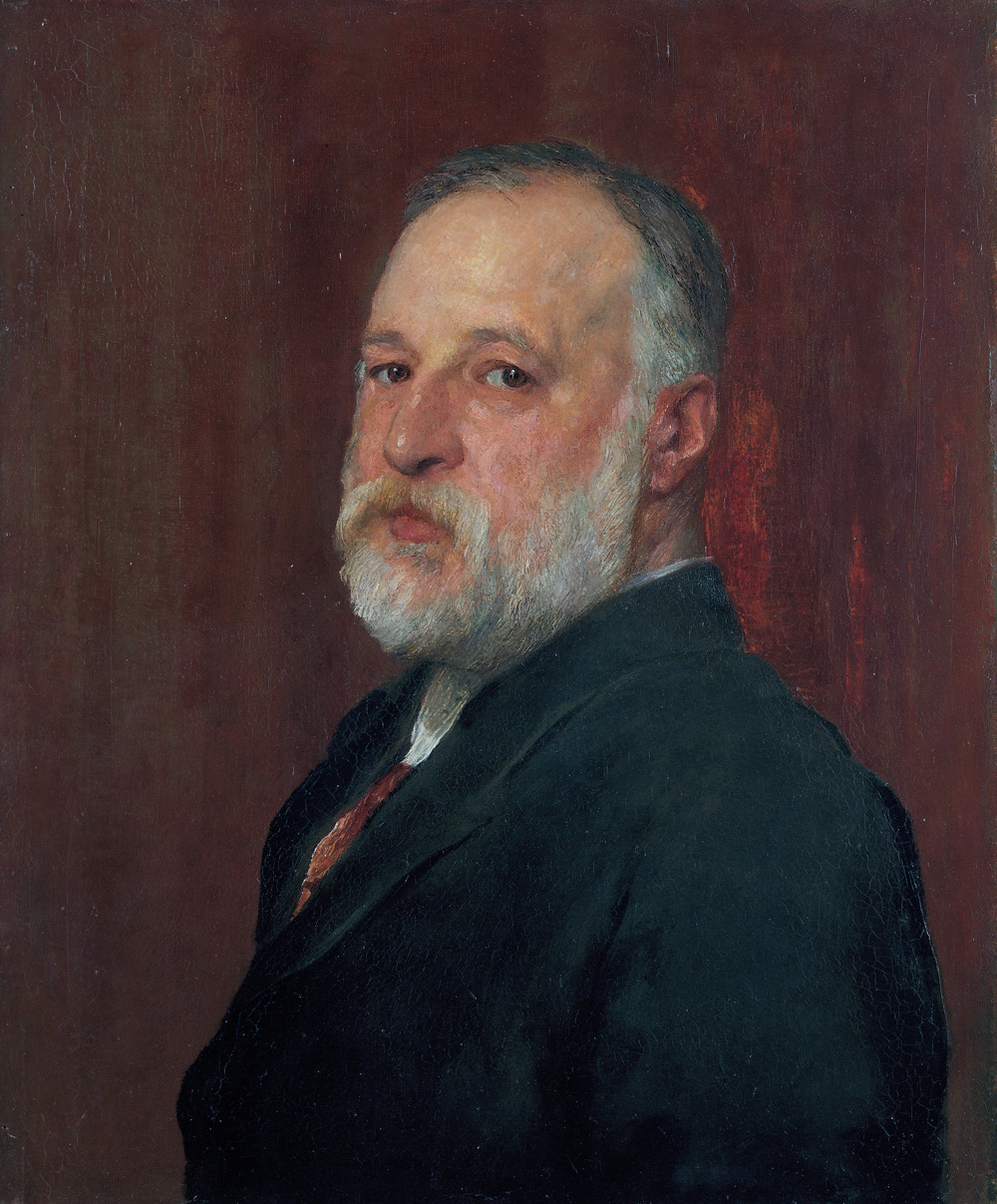 Constantine Alexandre Ionides oil on canvas 57.8 x 50.5 cm 1880